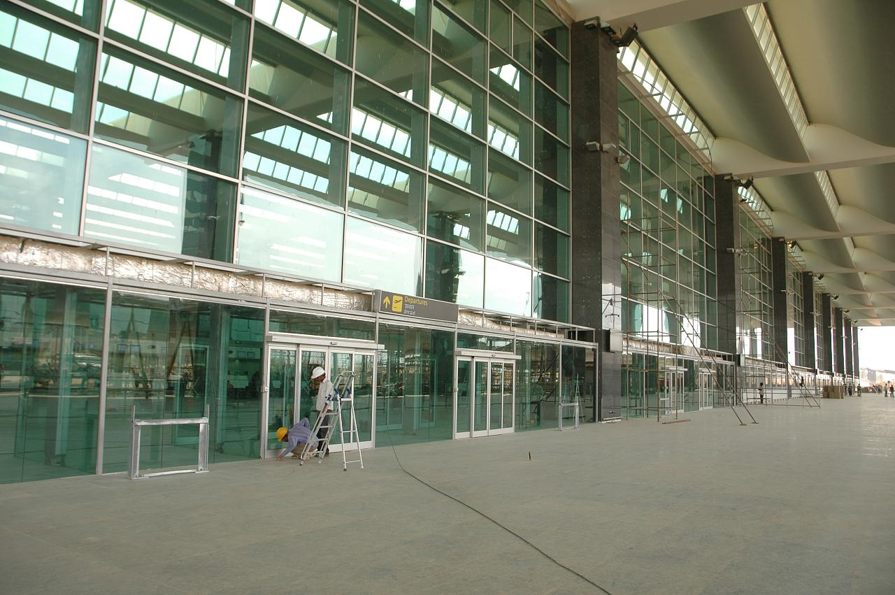 Pictures given to Praja.in in the press kit